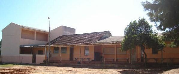 José Paim de Oliveira School in neighbourhood São Valentim in Santa Maria City. RS. Brazil.